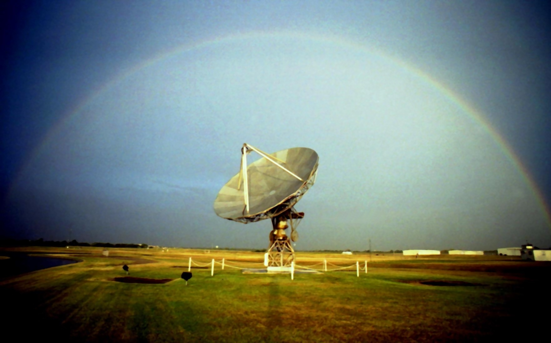 A rainbow arching over the WSR-88D test radar. At the NSSL site in Oklahoma, Norman. 2004 September 23.